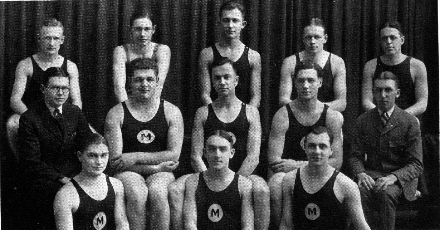 Photograph of 1922 Michigan Wolverines swim team Front row: White, Hubbard, FrostMiddle row: Elliot, Kern, L. Babcock (captain), Valentine, JeromeBack row: Mildner, Aldrich, K. Babcock, Ullman, Koch